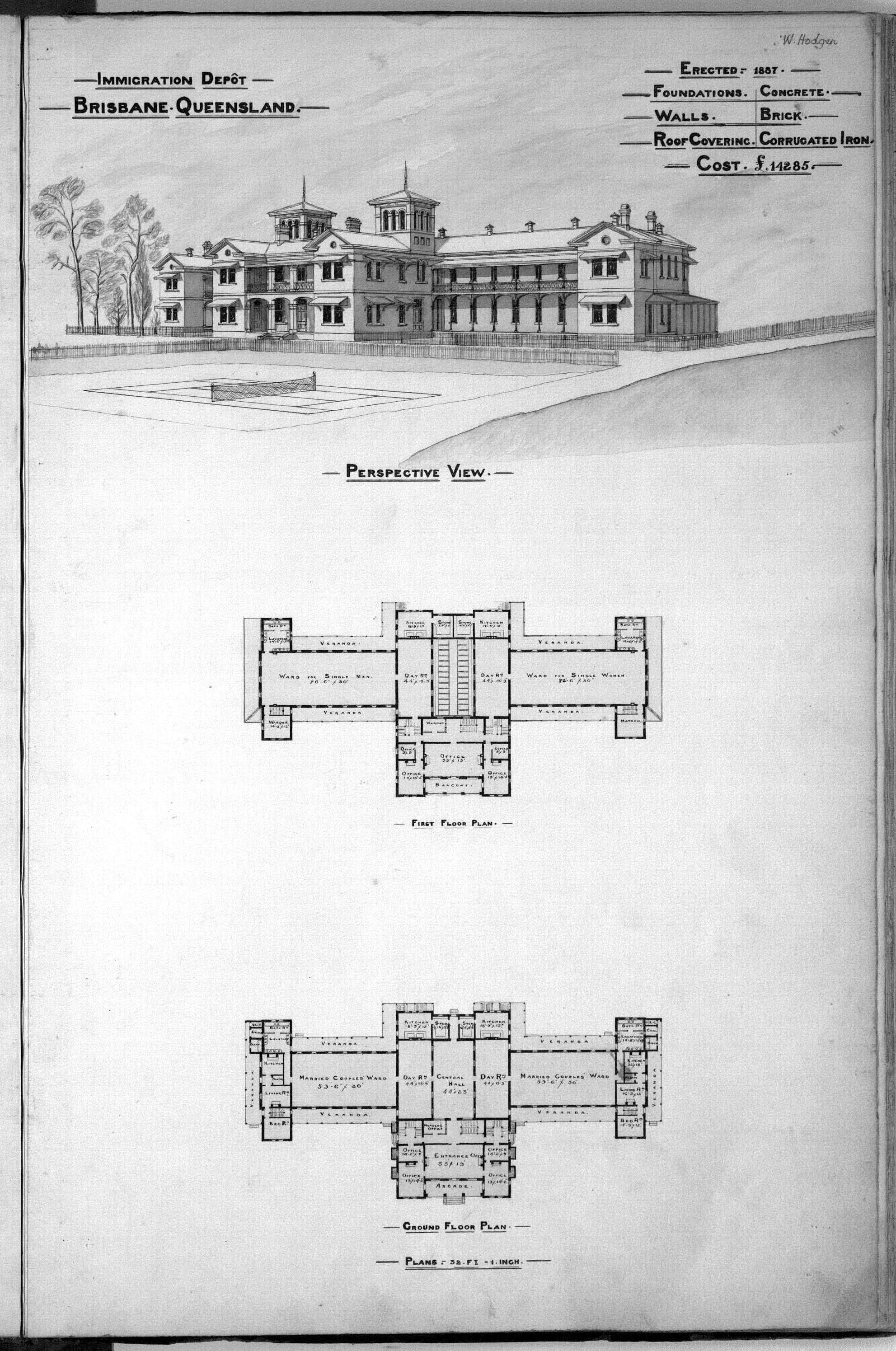 Architectural plans and perspective drawing of the Immigration Depot (Yungaba), Brisbane, 1888